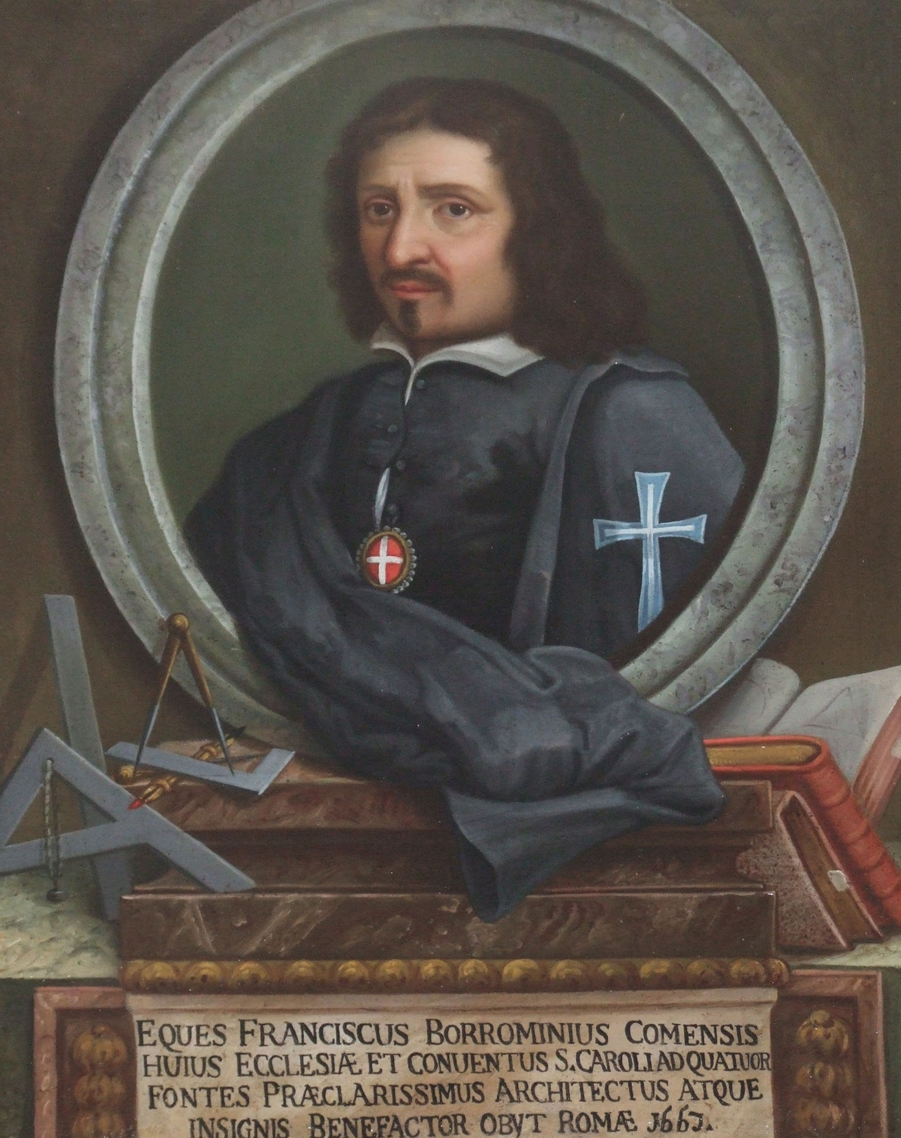 Supreme Order of Christ